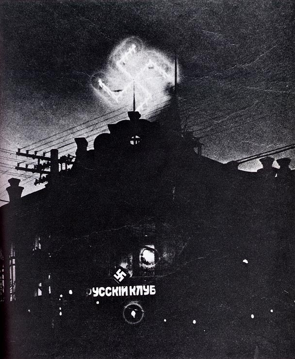 Illuminated Swastica at Russian Fascist Party HQ, Manchouli